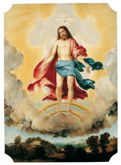 Artist Lorenzo Lotto (1480–1556) Description Italian painter and fresco painter Date of birth/deathcirca 14801556Location of birth/deathVeniceLoretoWork locationRecanati (1506-1508), Venice (1500), Treviso (1503-1506), Rome (1509-1512), Bergamo (1513-1525), Venice (1513-1517), Treviso (1525-1527), Venice (1527-1529), Loreto, Venice (1529-1539), Treviso (1540-1549), Ancona (1549), Loreto (1556)Authority control VIAF: 22165049 ISNI: 0000 0001 2320 0265 ULAN: 500015631 LCCN: n50042418 NLA: 35692463 WorldCat Title